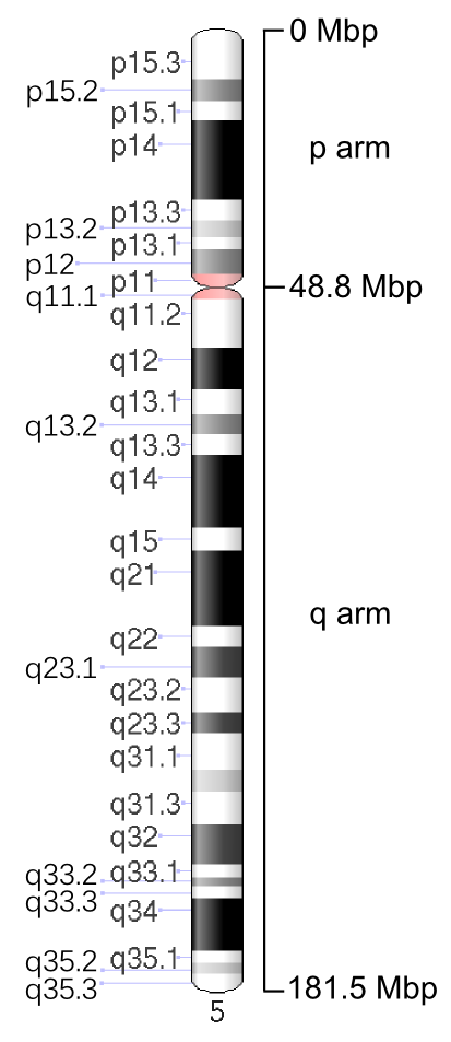 Ideogram of human chromosome 5. G-band, 550 bphs (bands per haploid set). Black and gray: Giemsa positive. Red: Centromere. Light blue: Variable region. Dark blue: Stalk. Mbp: Mega base pairs.